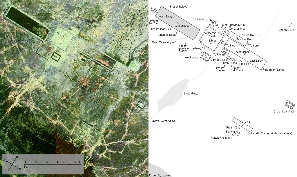 Satellite image by NASA with a map showing the larger and more important temples and structures of the Angkor area (Cambodia), the city Siem Reap, the airport, the river and a corner of Tonlé Sap lake.